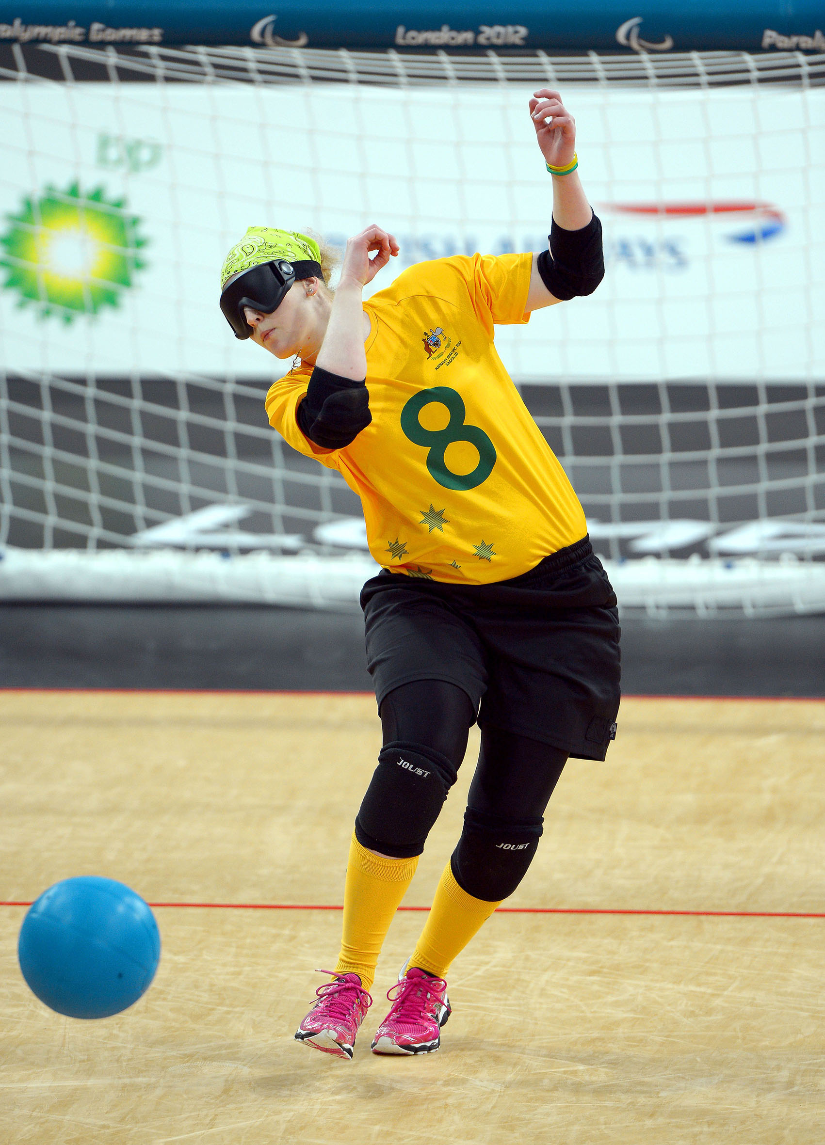 Photograph of Australian Paralympic team member Meica Christensen at the 2012 Summer Paralympic Games in London